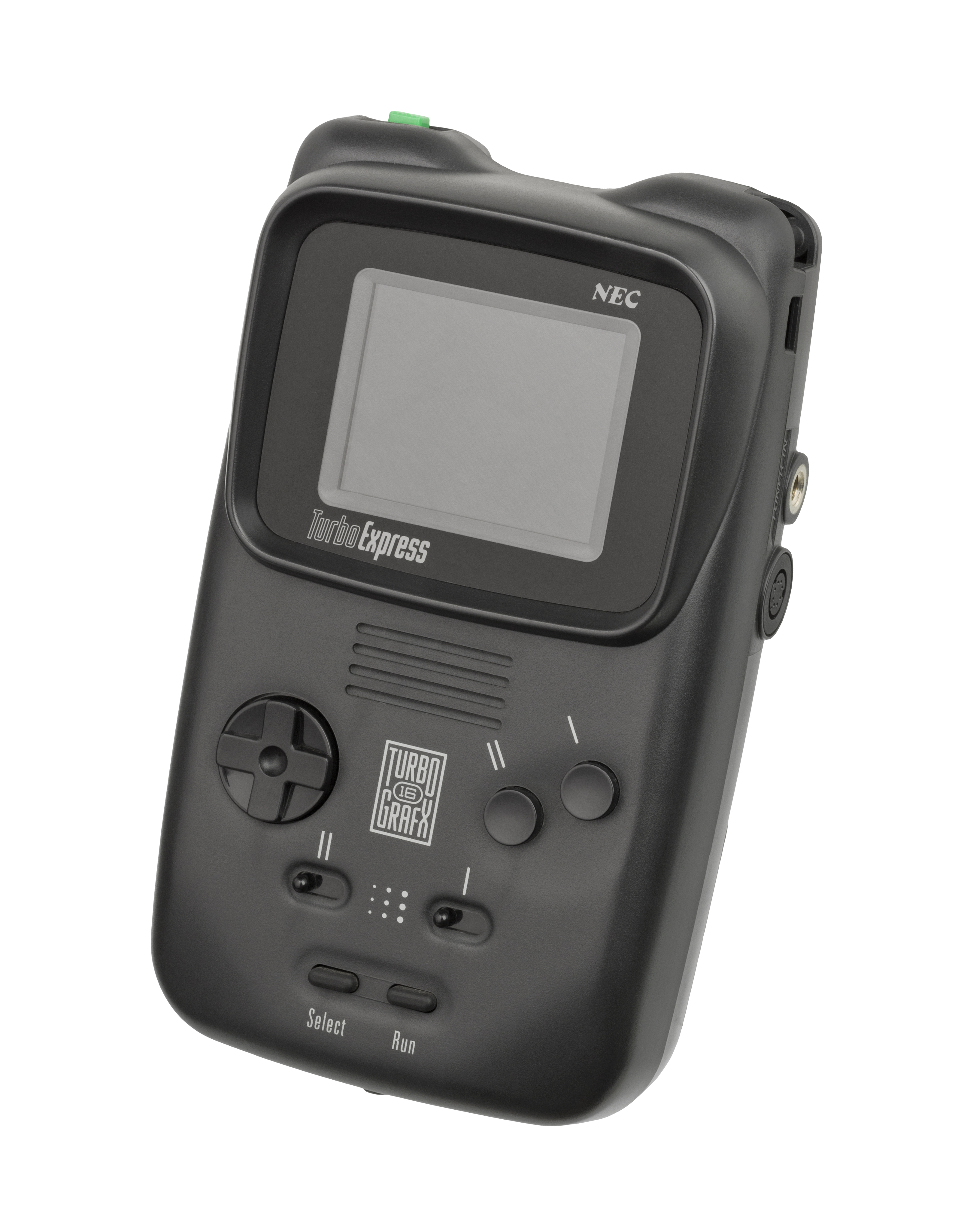 The TurboExpress, a portable version of the TurboGrafx-16 game console, that was released in 1990.